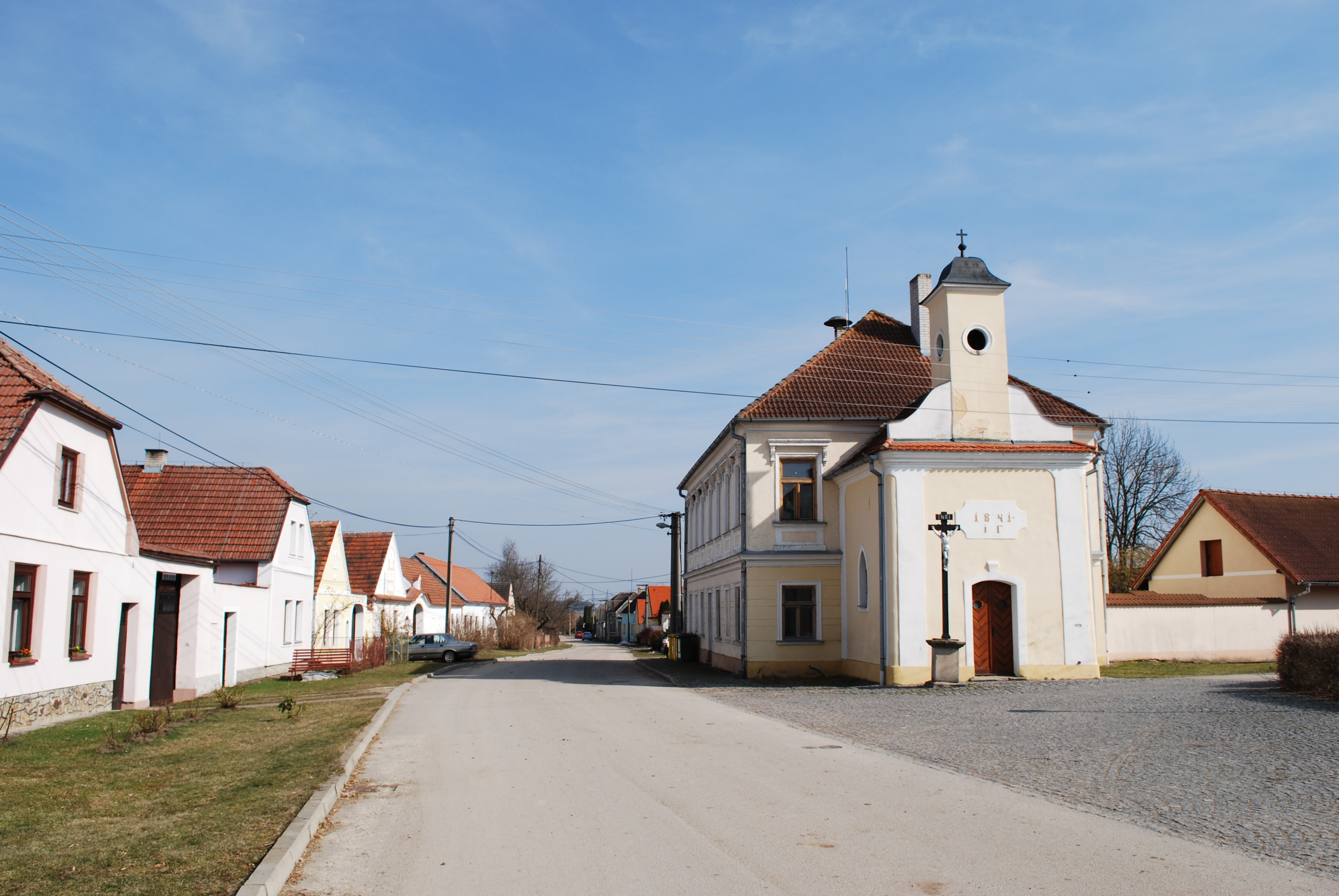 Záblatí village, Jindřichův Hradec District, Czech Republic. This photograph was taken within the scope of the 'Czech Municipalities Photographs' grant. - Google Maps - Google Earth